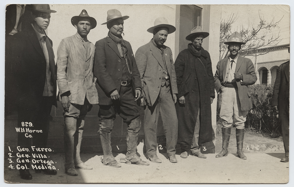 Title: Gen. Fierro, Gen. Villa, Gen. Ortega, Col. Medina Creator: Horne, Walter H., 1883-1921 Date: ca. 1910-1919 Part Of: border troops and the Mexican Revolution Place: Mexico Physical Description: 1 photographic print (postcard): gelatin silver; postcard 9 x 14 cm File: ag1982_0015_118c_fierro.jpg Rights: Please cite DeGolyer Library, Southern Methodist University when using this file. A high-resolution version of this file may be obtained for a fee. For details see the web page. For other information, . For more information and to view the image in high resolution, View the Mexico